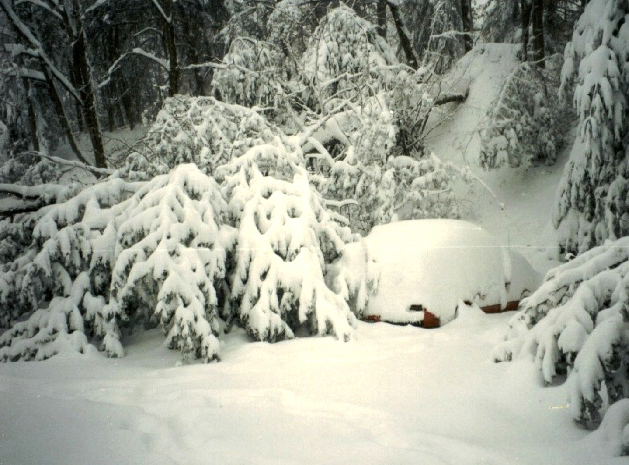 The 1993 Storm of the Century's snowfall downed a tree in Asheville, North Carolina. An automobile covered in snow is shown on the right.